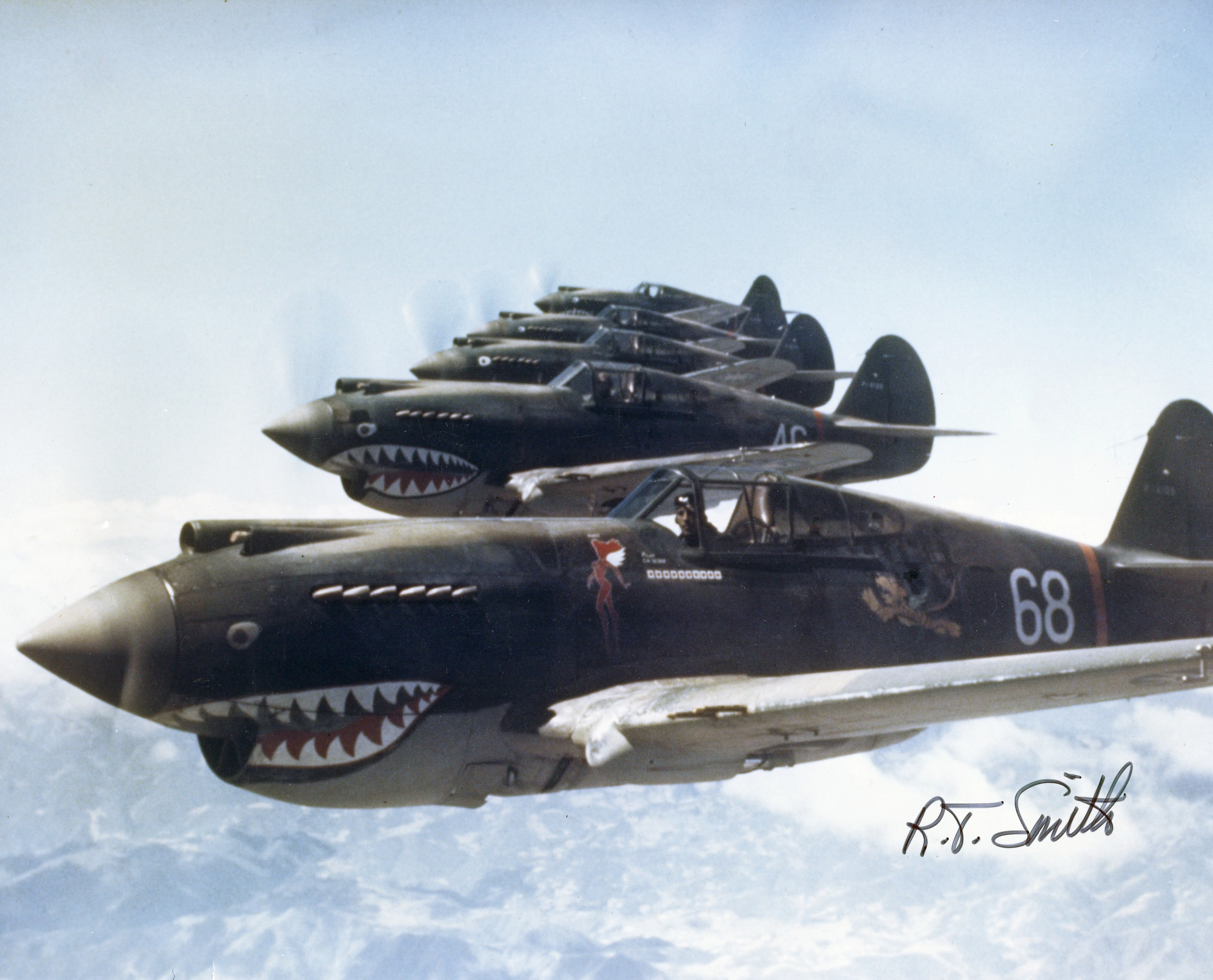 Subject: Hell's Angels, the 3rd Squadron of the 1st American Volunteer Group "Flying Tigers" Title: R.T. Smith photo, 1942. Hell's Angels, The Flying Tigers - China. Follow Flickr link for detailed photo information. Repository: San Diego Air and Space Museum Archive Catalog # 1606